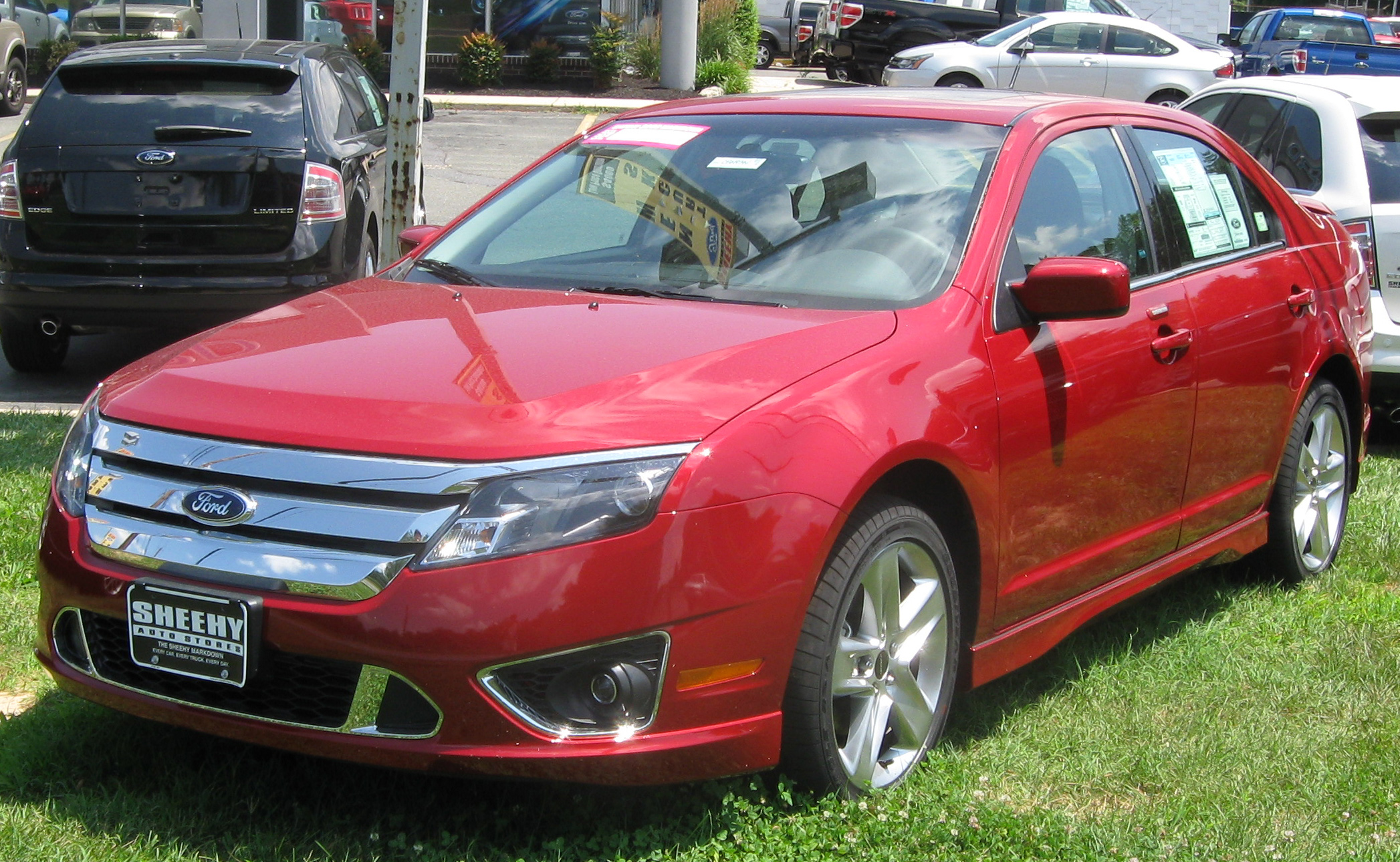 2010 Ford Fusion Sport photographed in Gaithersburg, Maryland, USA.